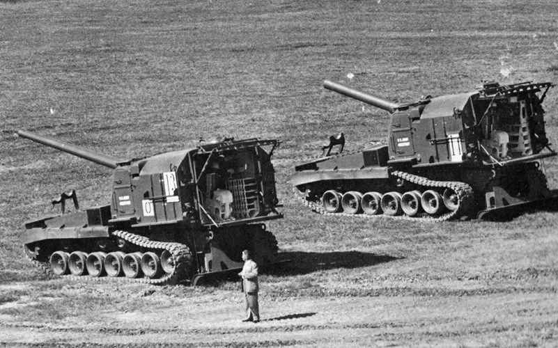 M-55 8-inch Self-Propelled Howitzer (right) with the M53 155mm Self-Propelled Gun